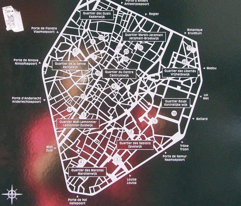 Tourist Map in the street near Manneke Pis, Brussel